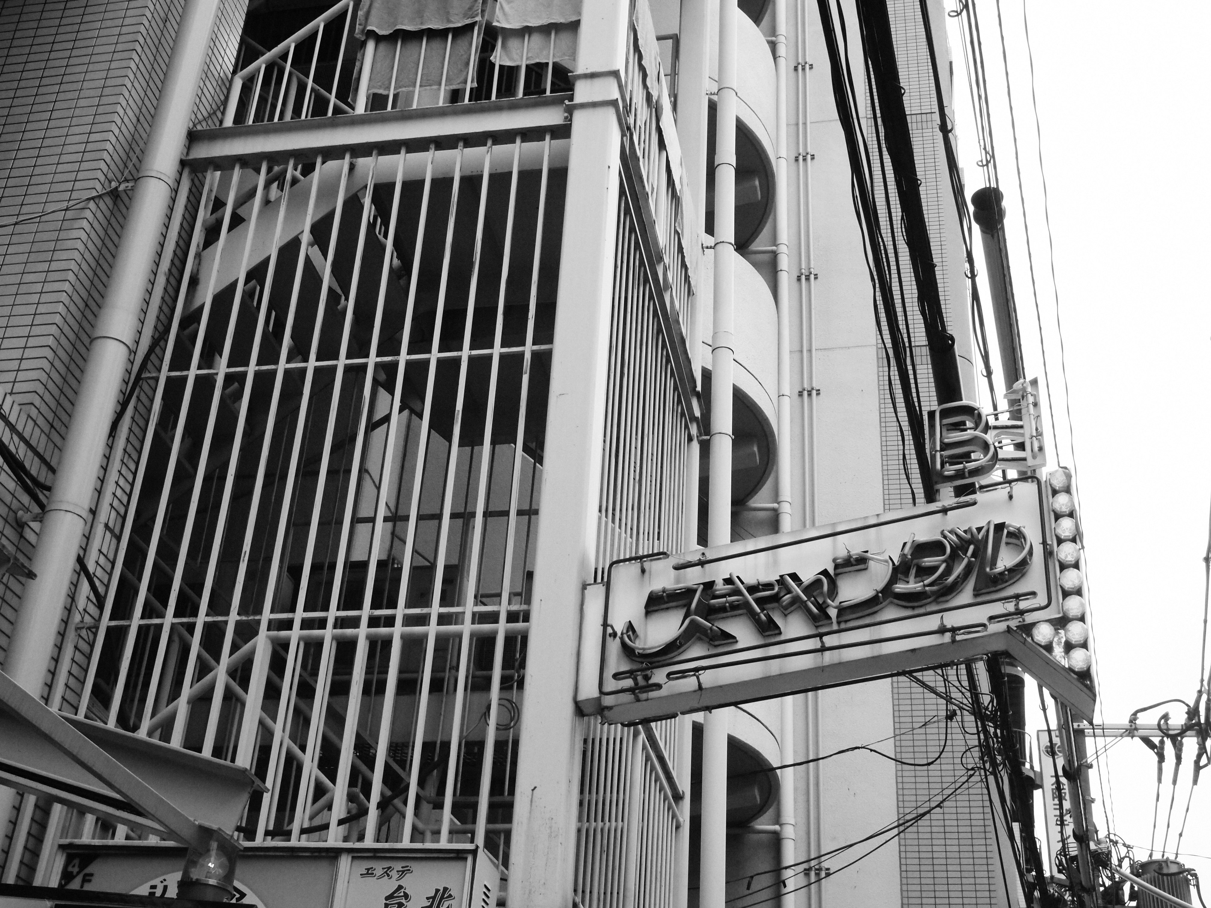 The sign of the Scandal Kyobashi kyabakura. This is where the Japanese pop rock band Scandal got their name from.